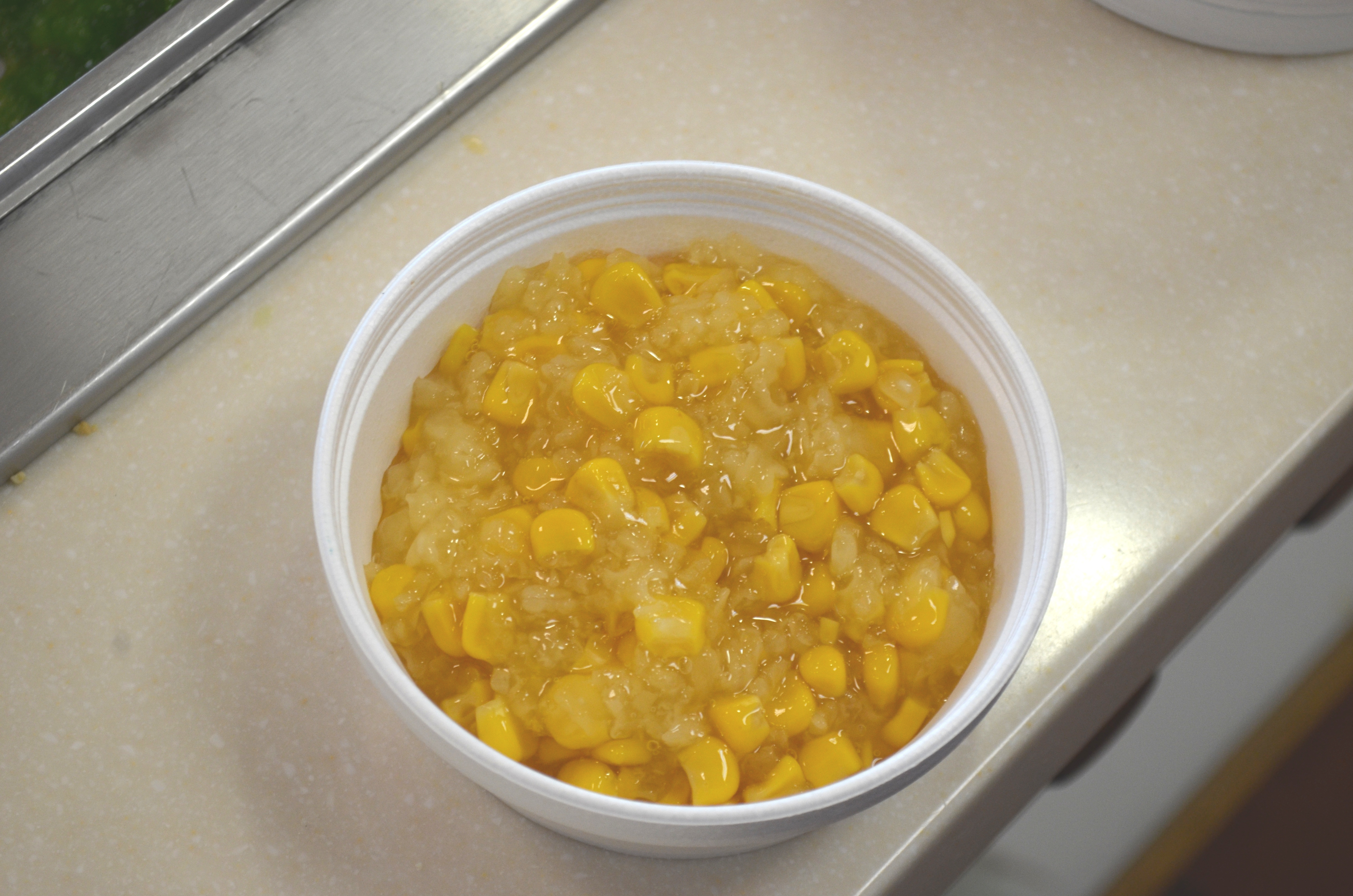 Vietnamese corn dessert. Made of corn in tapioca rice pudding.